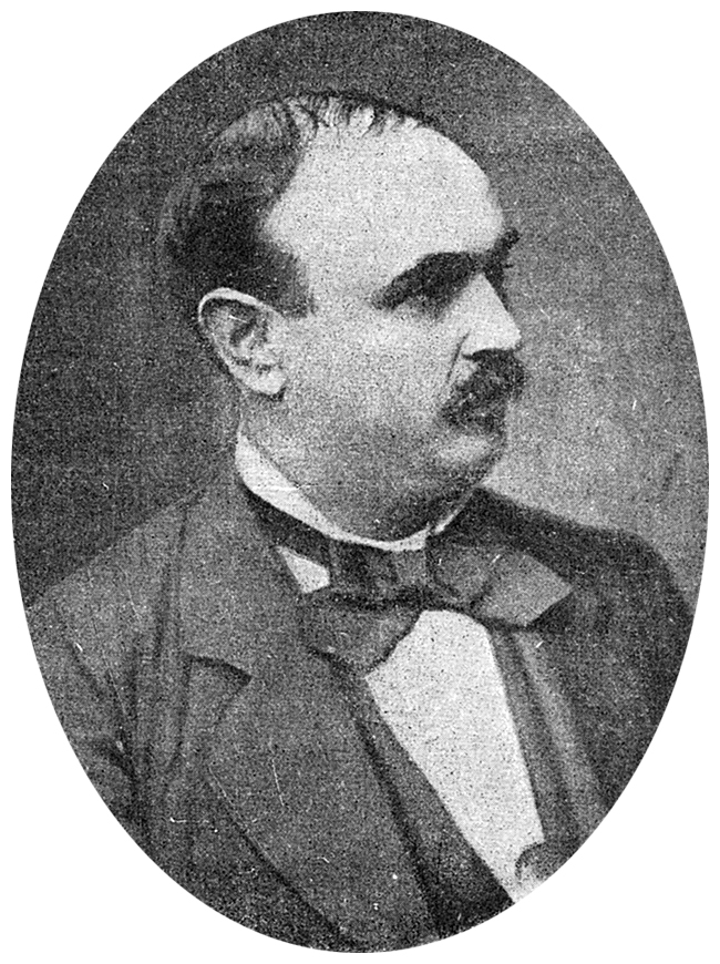 Portrait of the composer Charles Malo